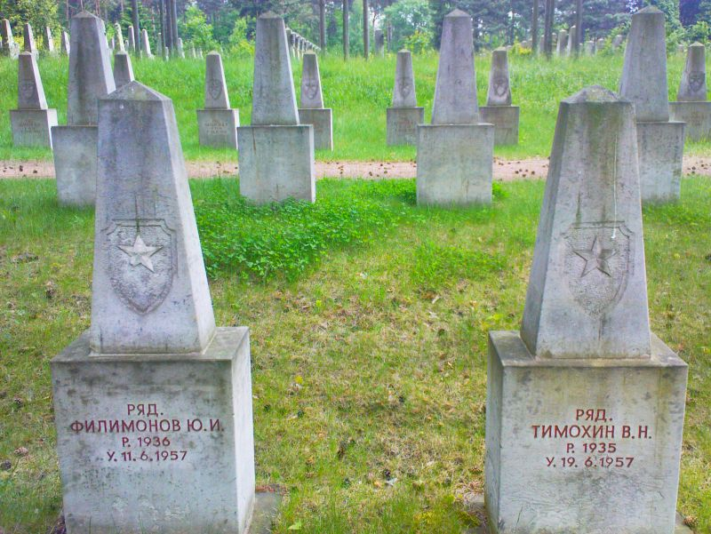 Hauptanlage Blick vom West- zum Mittelflügel